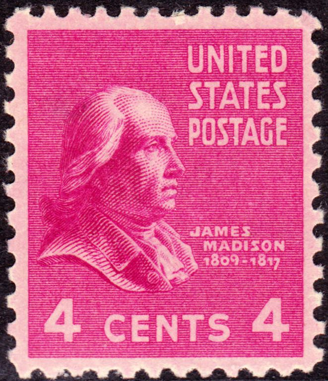 US Postage Stamp: James Madison, Issue of 1938, 4c